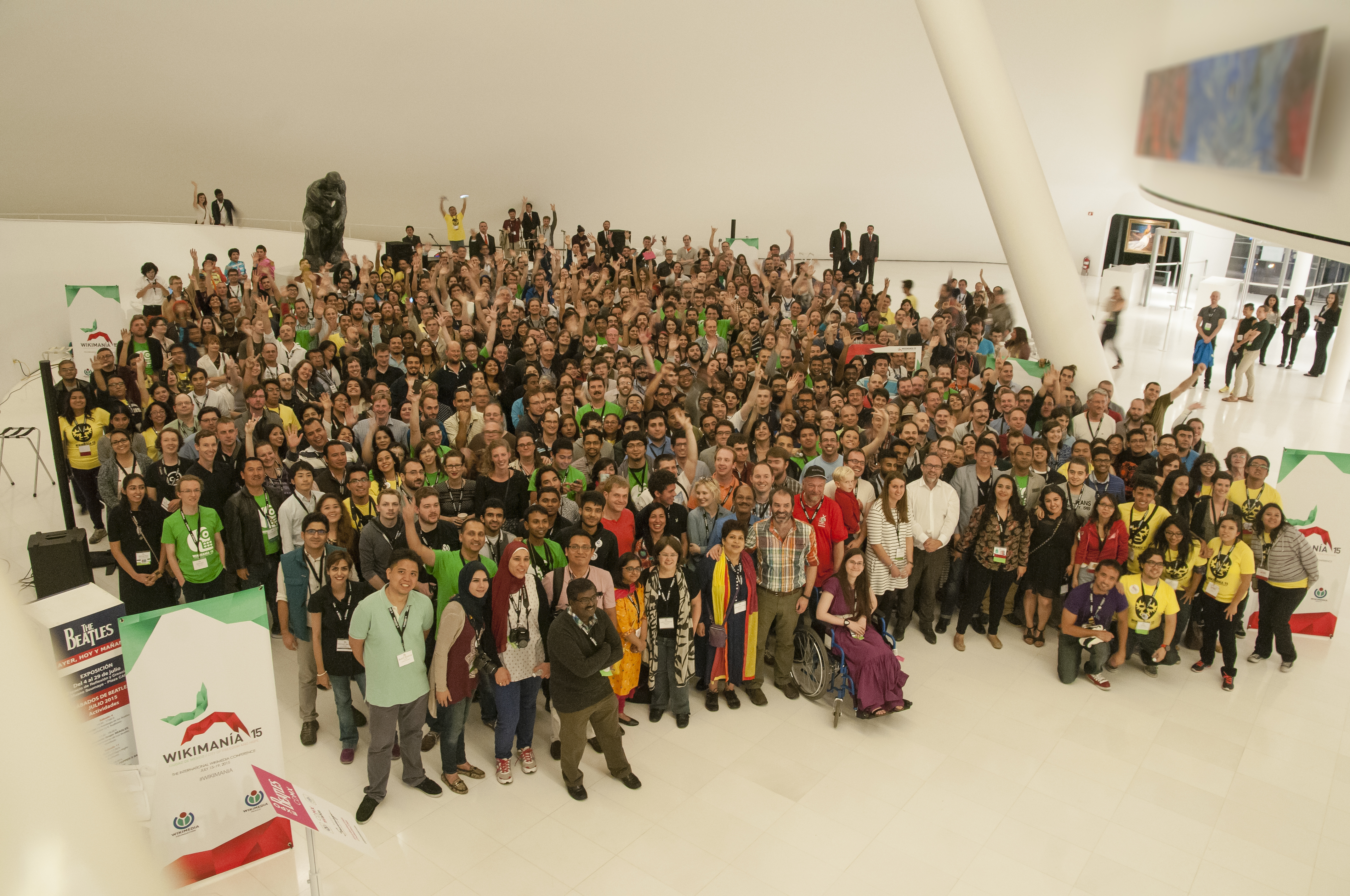 Wikimania 2015 - Group photo Museum Soumaya, Mexico City